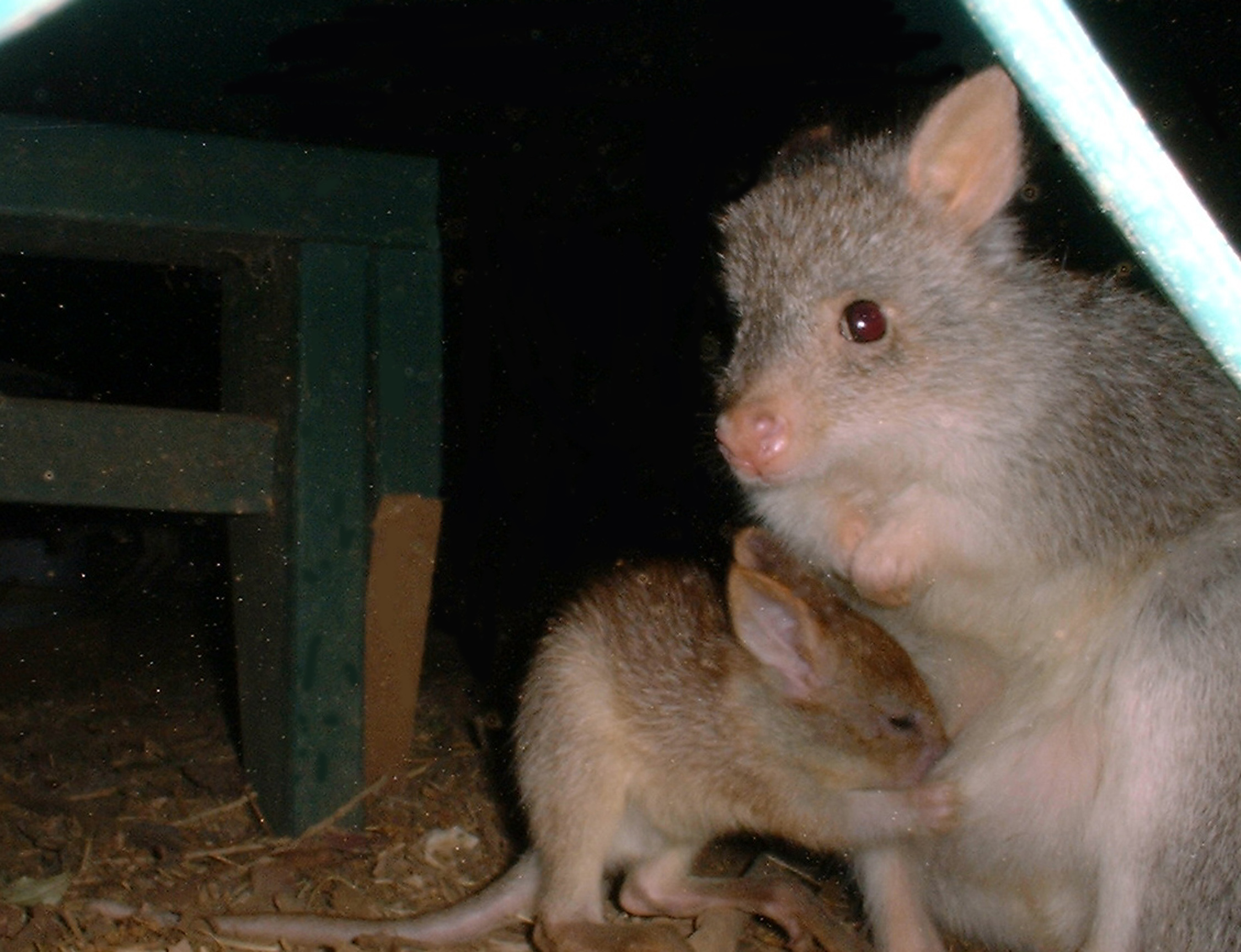 Rufous_getting_into_pouch